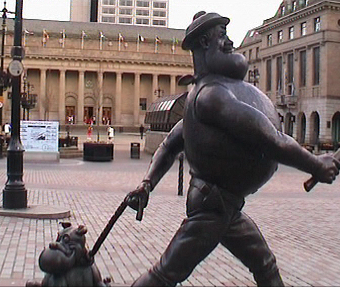 Photograph of Desperate Dan statue in Dundee city centre; behind it is City Square, the Caird Hall (straight ahead) and Dundee City Chambers (to the right)